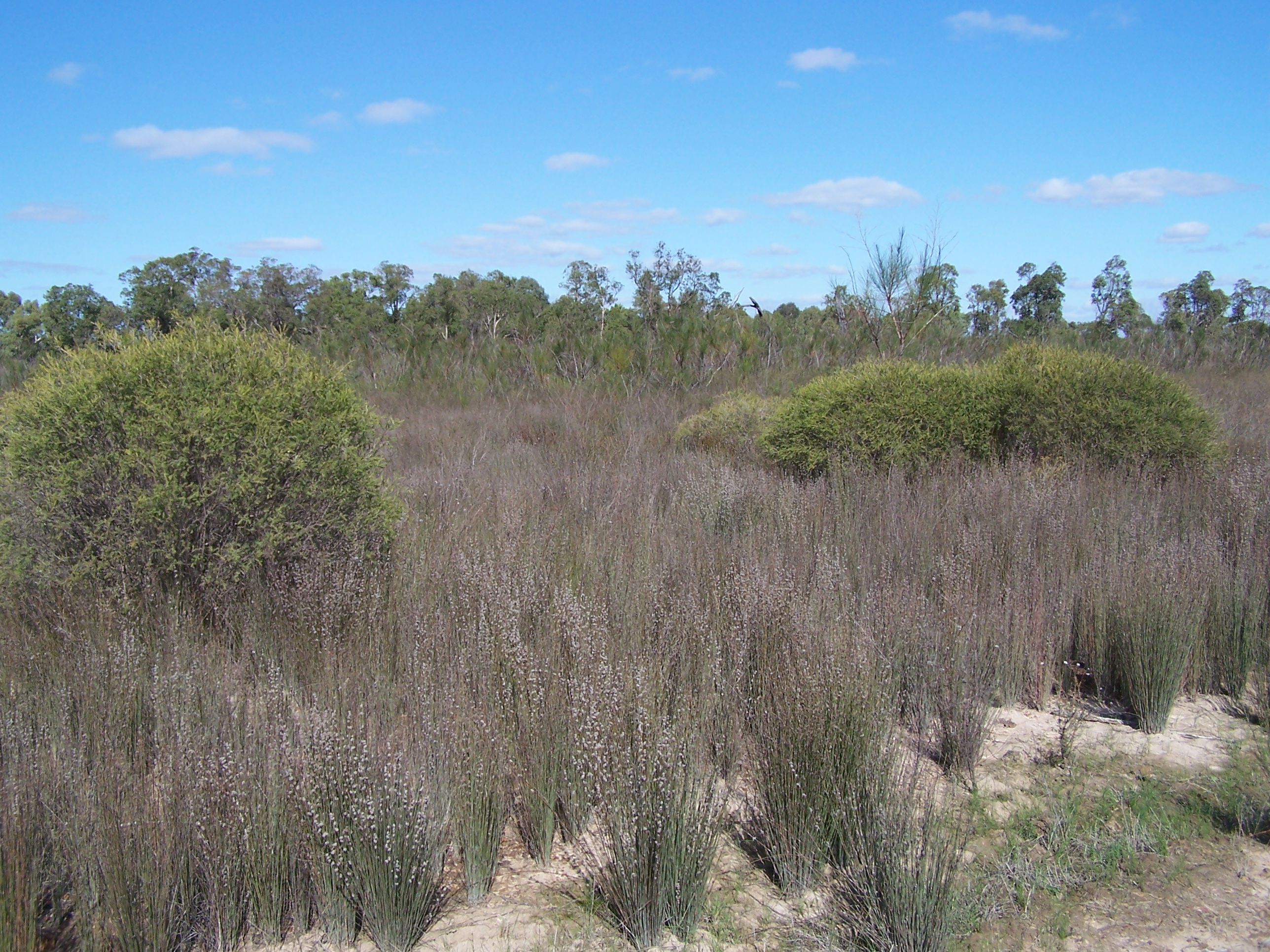 View looking South West from the centre of the Brixton Street Wetlands